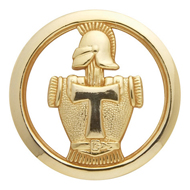 Insigne de béret des Transmissions